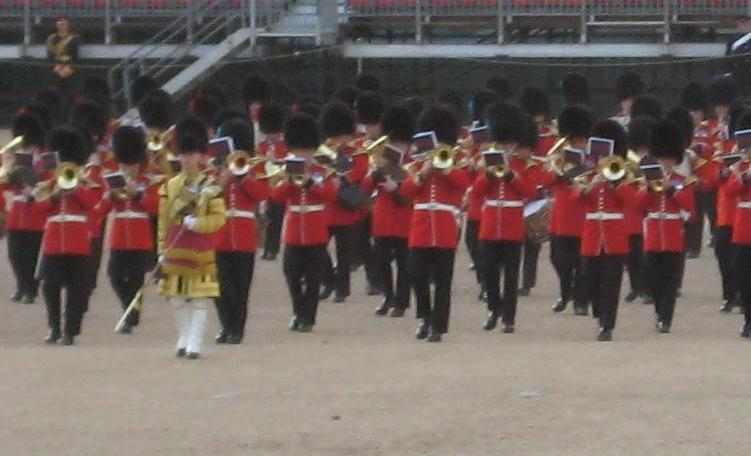 The Irish Guards Band on Horseguards Parade, for Beating Retreat in 2008. They are formed up as part of the massed bands.